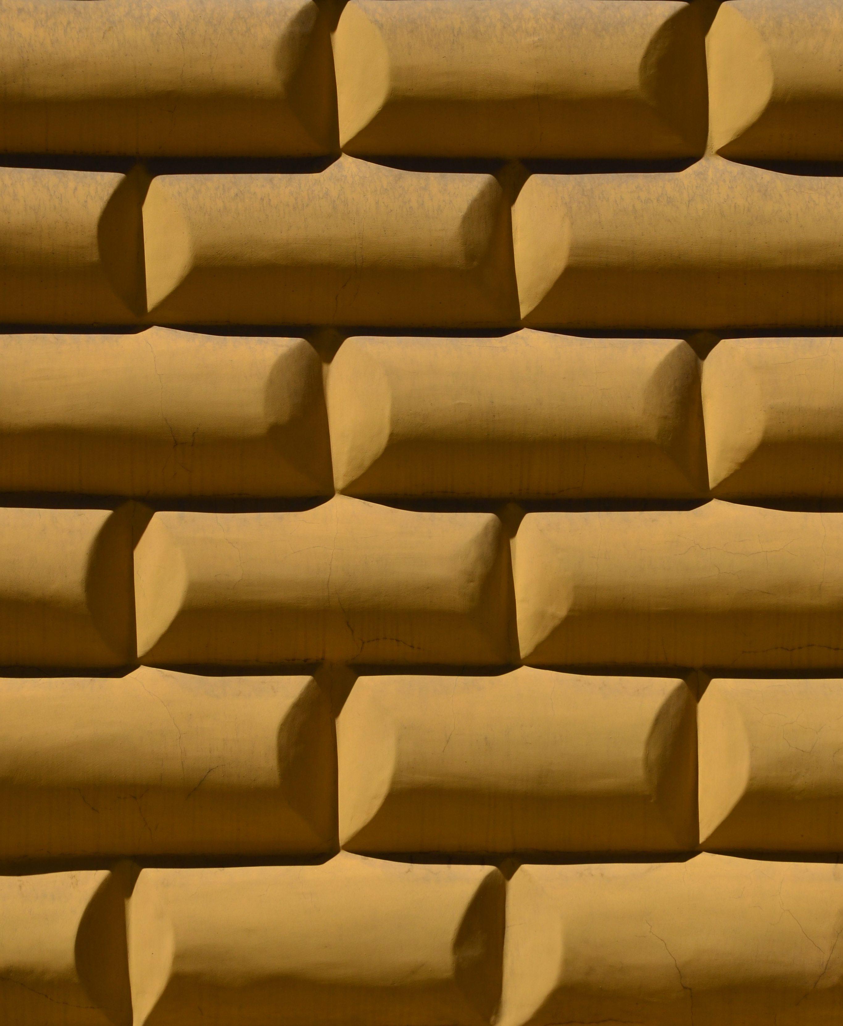 Rustication at 15 Pekarska Street, Lviv.